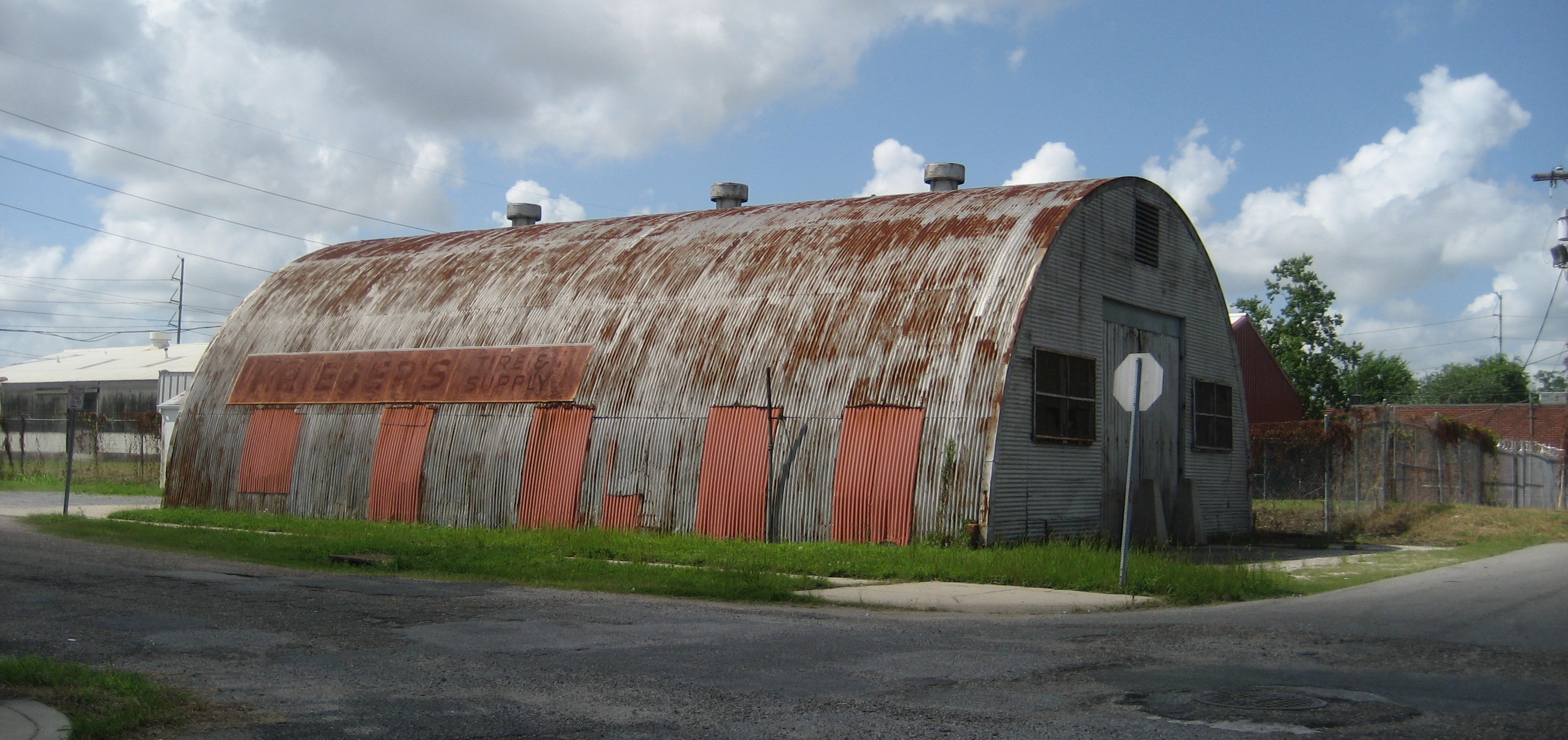 "Gert Town" section of New Orleans